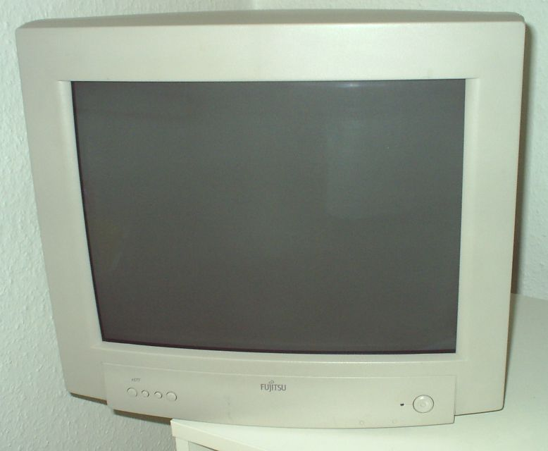 computer monitor